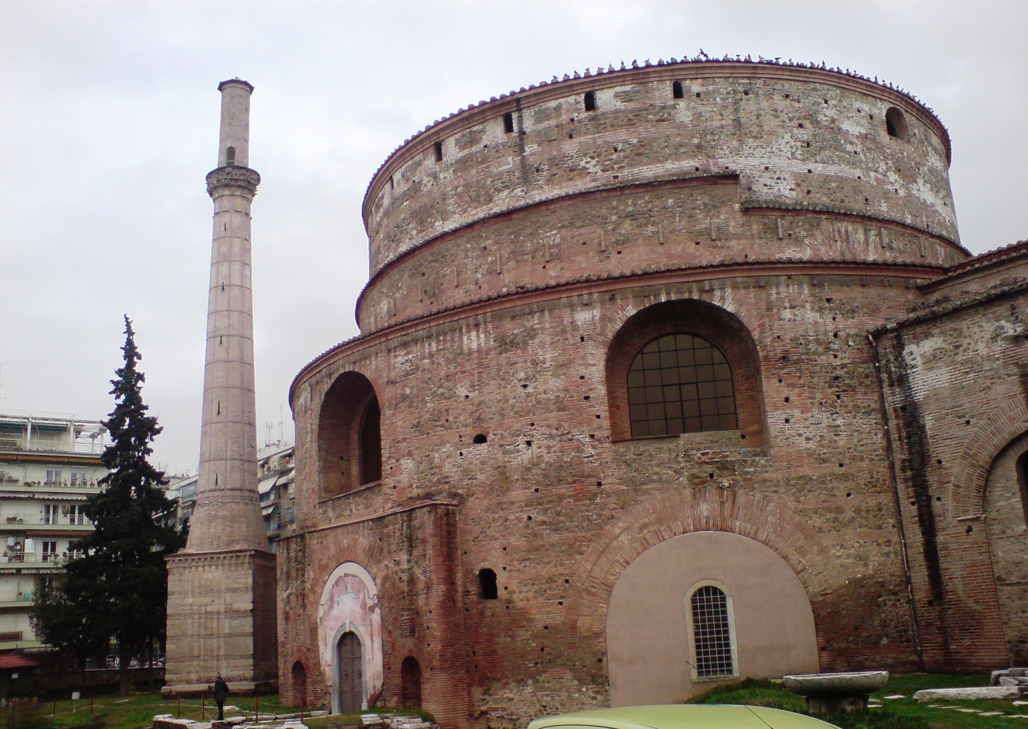 Rotunda yard, Thessaloniki: A view